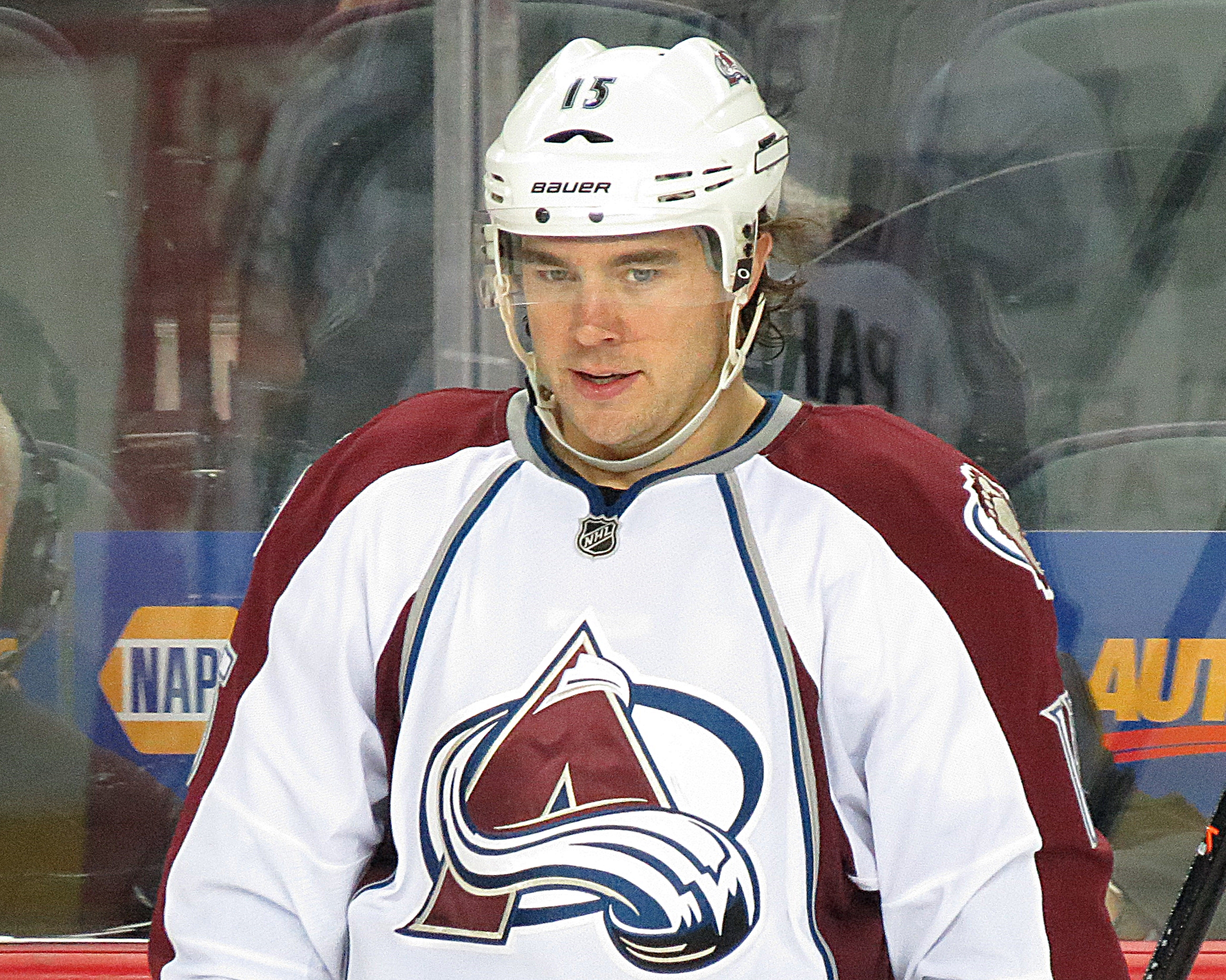 P. A. Parenteau of the Colorado Avalanche during the 2013–14 season.